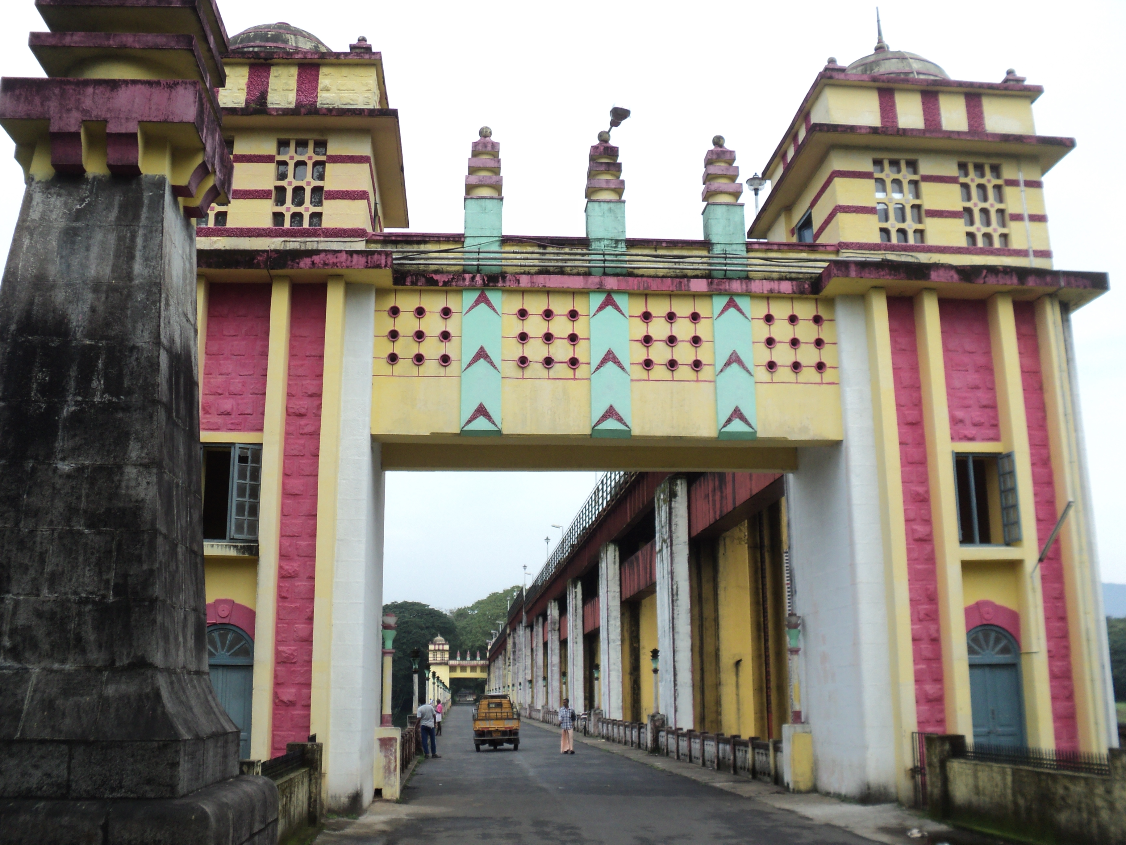 Periyar Barrage, Bhoothathankettu